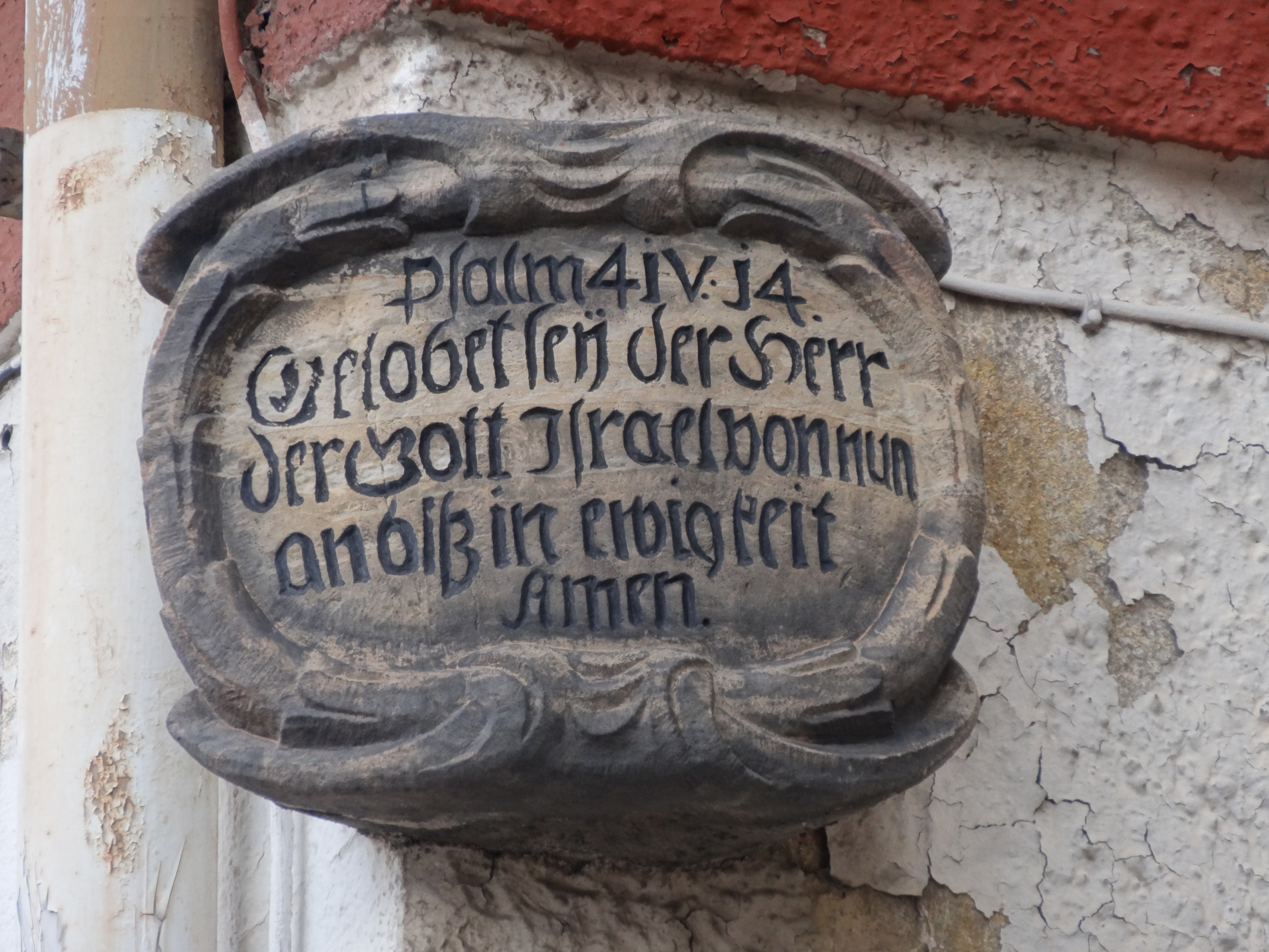 Plaque at a street corner in Hauptmarkt 9, Gotha, Thuringia, Germany